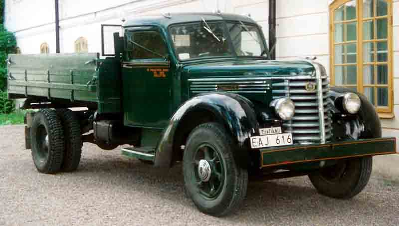 Diamond T Truck 1937